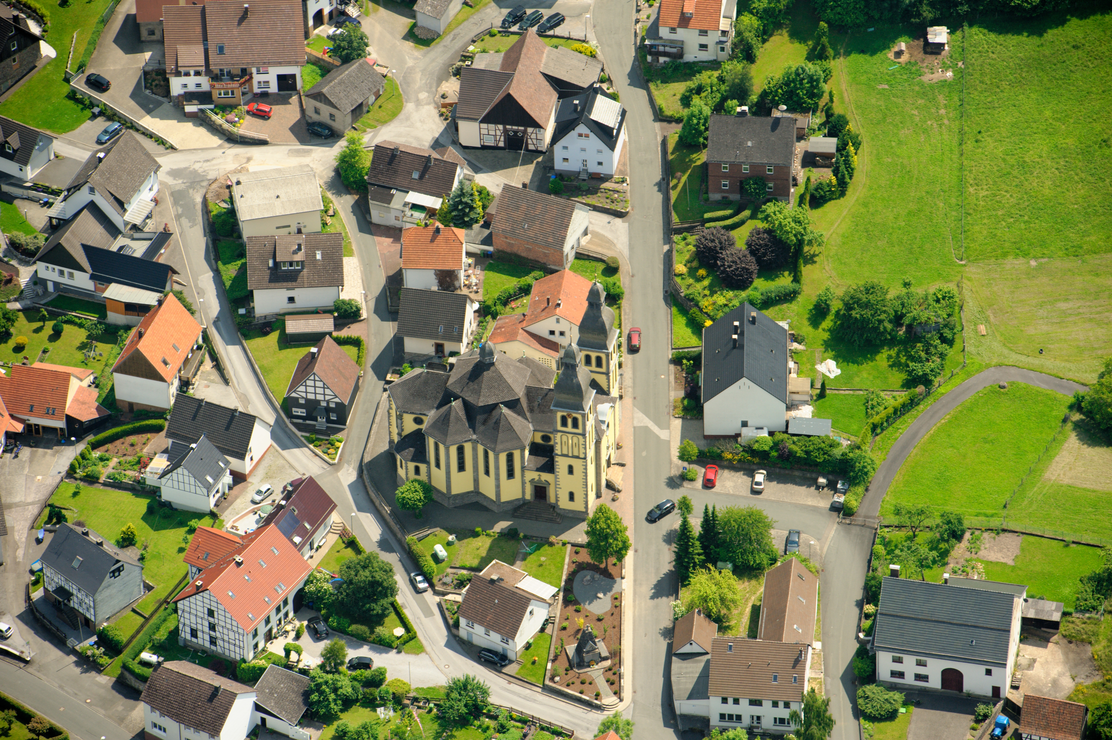 Fotoflug Sauerland-Ost, Marsberg, Ortsteil Padberg mit der Kirche St. Maria Magdalena The making of this document was supported by the Community-Budget of Wikimedia Germany.